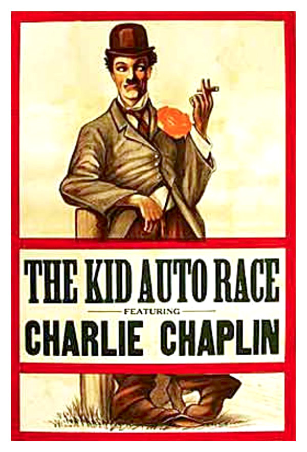 Promotional poster for the Charlie Chaplin film, Kid Auto Races at Venice (1914)